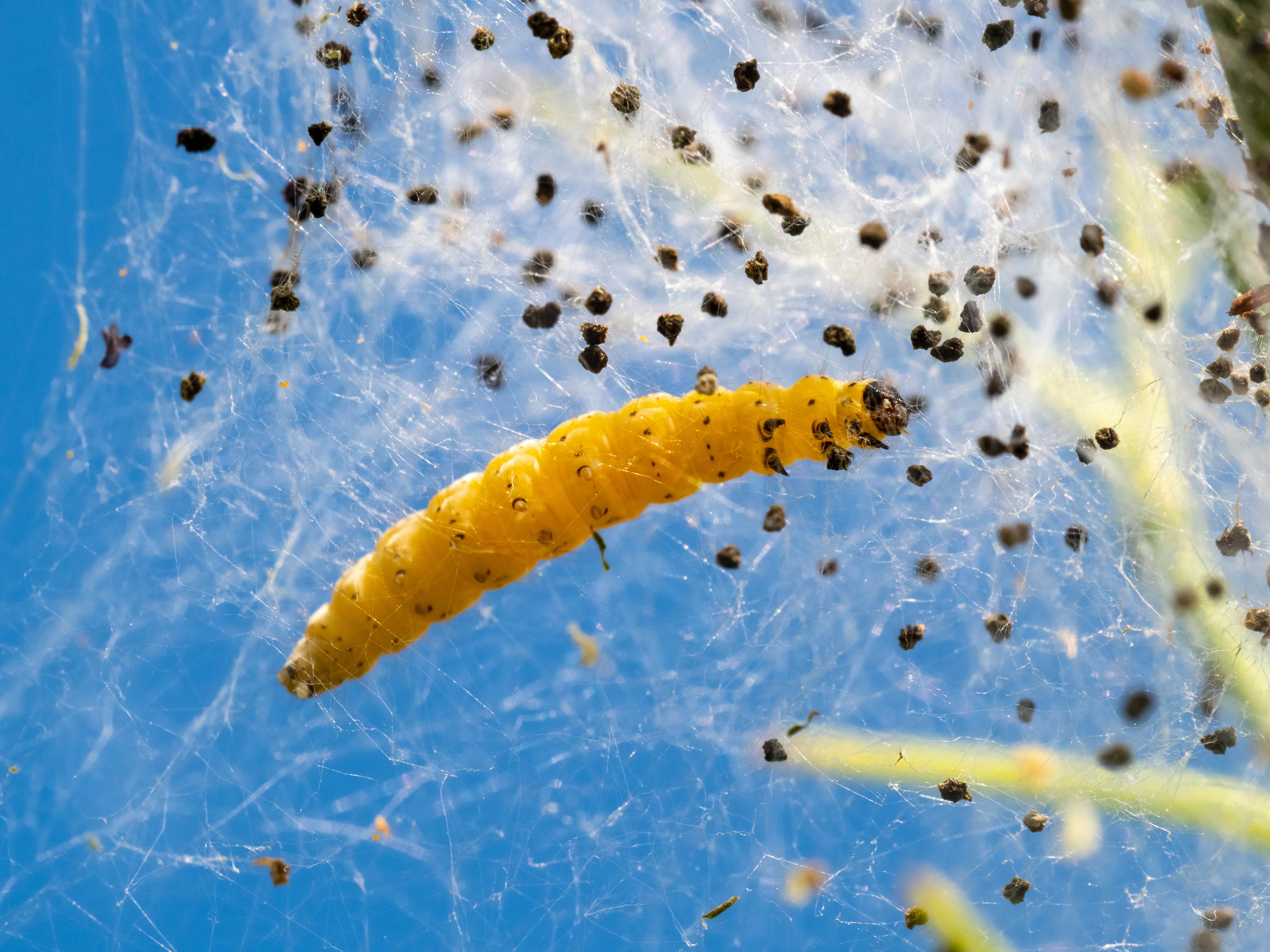 Bird-cherry ermine moth (Yponomeuta evonymella) caterpillar